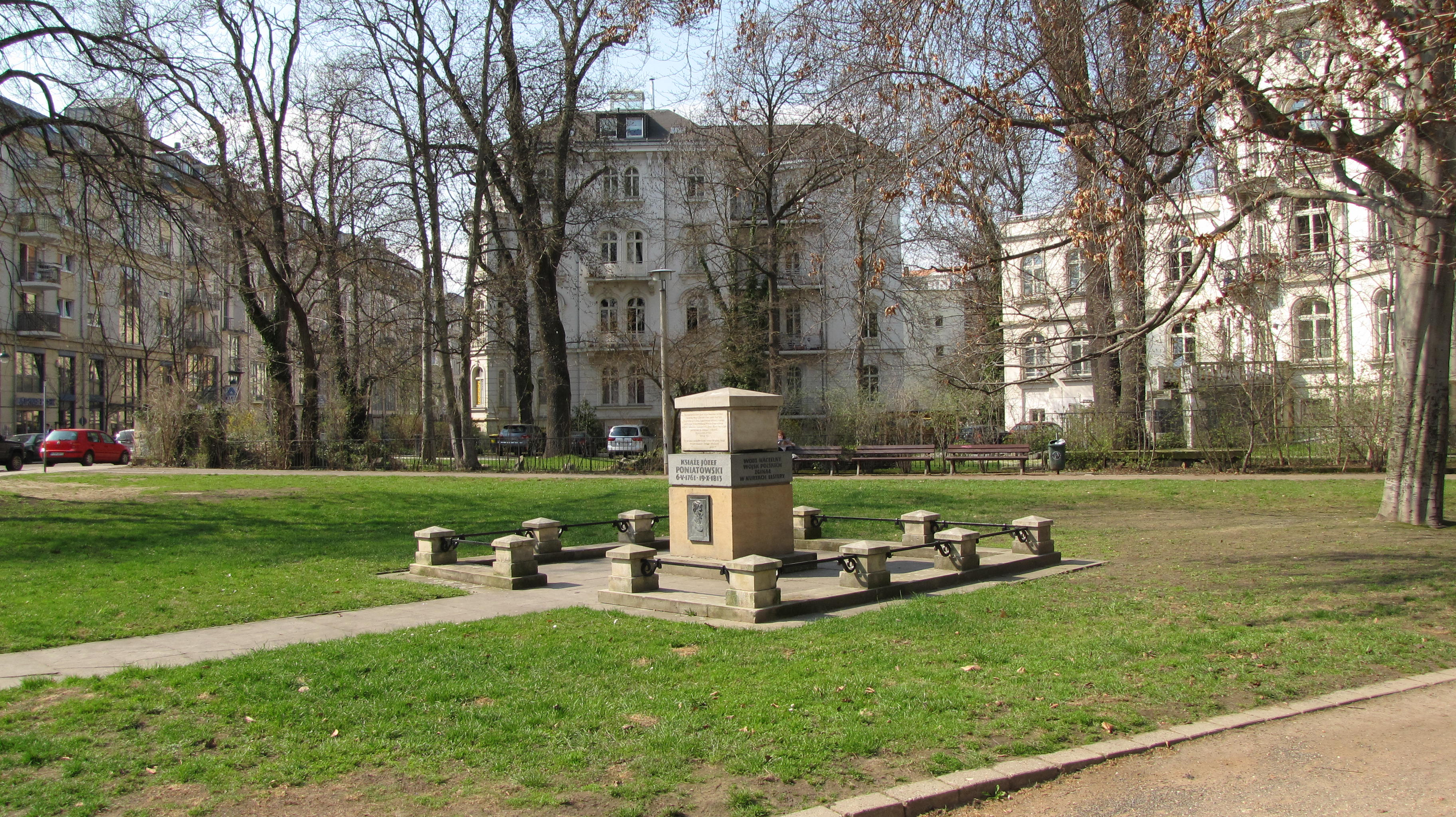 Memorial to Józef Antoni Poniatowski in Leipzig, Poniatowskiplan, Elsterstrasse/Gottschedstrasse